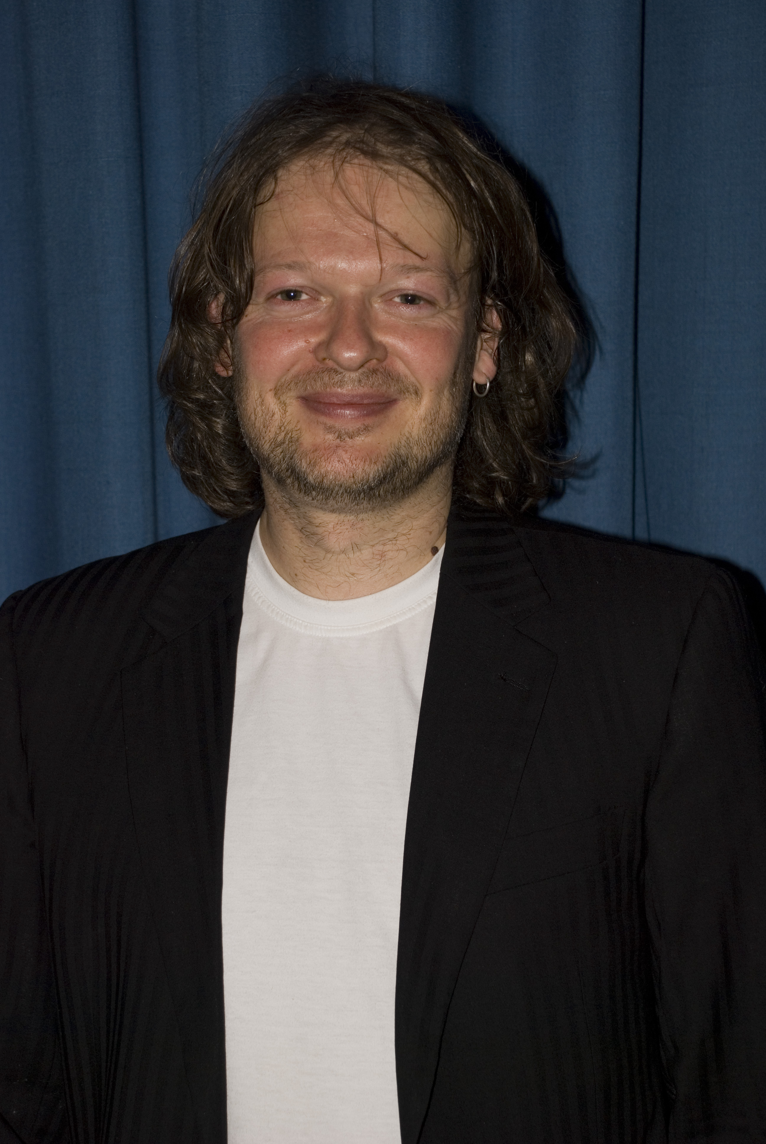 Picture of Michael Schmidt-Salomon, taken on October 31, 2008